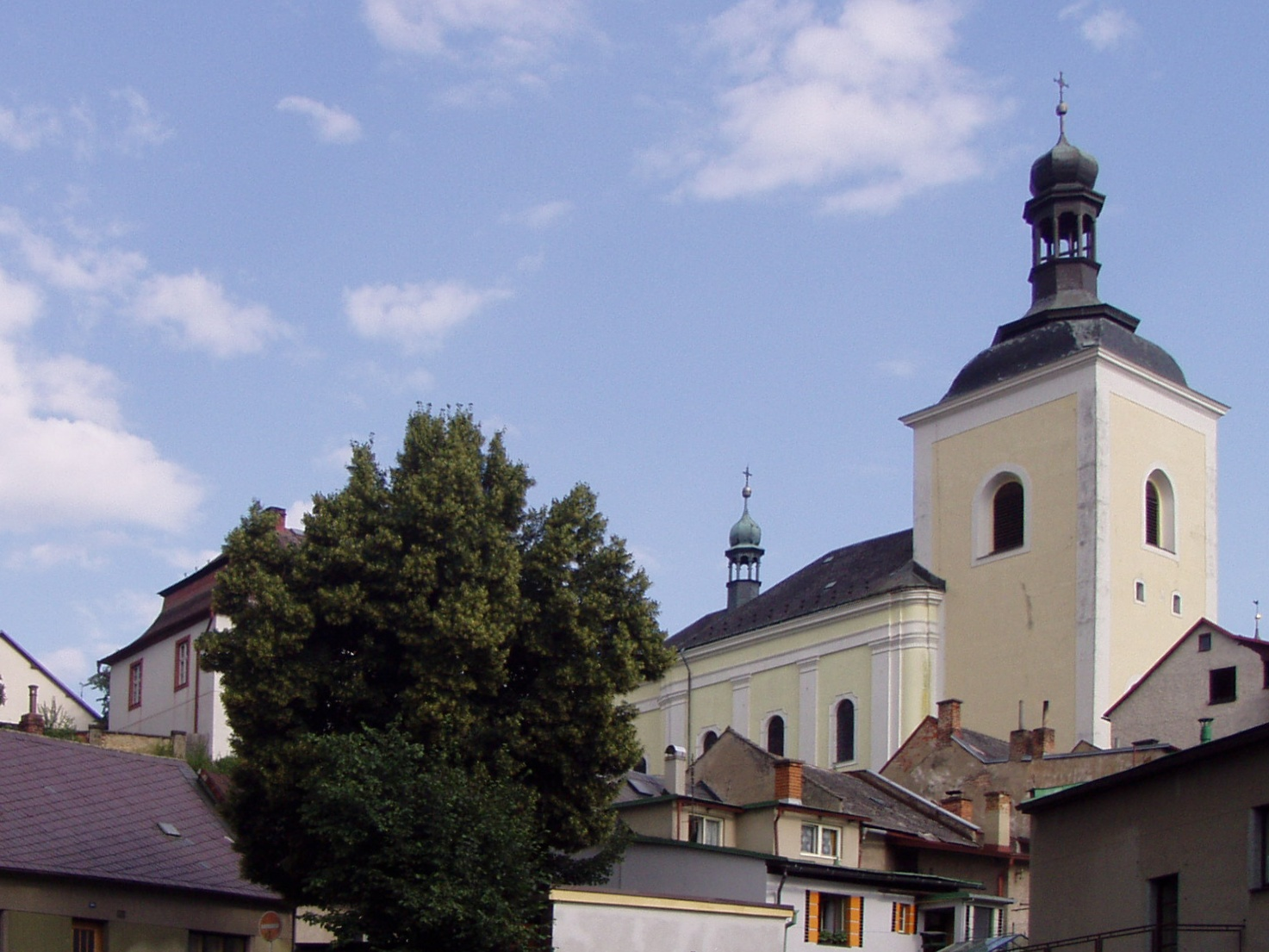 Saint Nicholas church in town of Turnov, Semily District, Czech Republic., as seen from the Trávnice Street, a Baroque rectory is visible in the left.